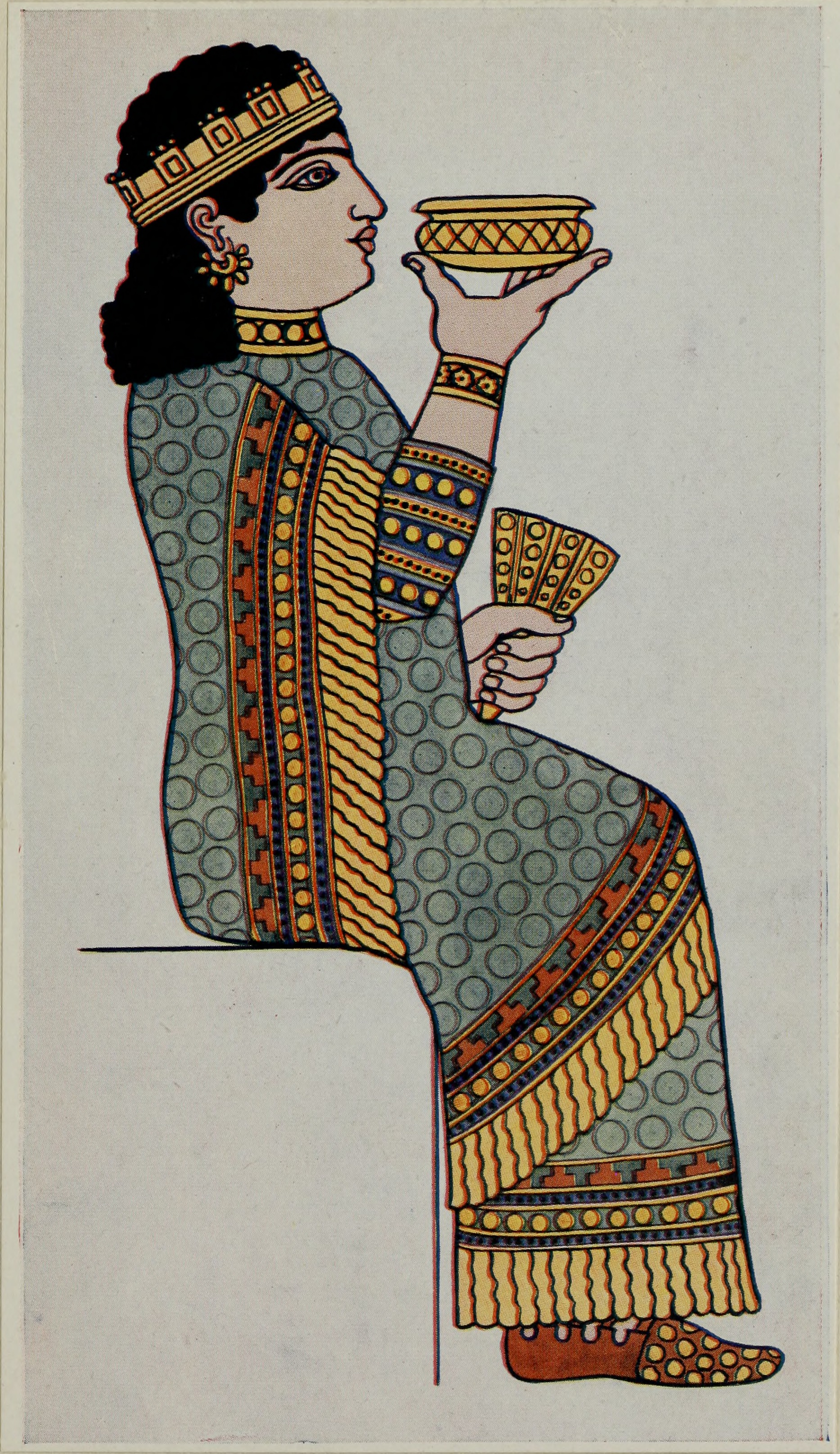 Title: Ancient Egyptian, Assyrian, and Persian costumes and decorations Year: 1920 (1920s) Authors: Houston, Mary G. (Mary Galway), b. 1871 Hornblower, Florence S Subjects: Costume Costume Costume Publisher: London : A. & C. Black, limited Text Appearing Before Image: Fig. 39 69 ANCIENT ASSYRIAN COSTUME Plate XIV. Plate XIV. is the Queen of Assur-bani-pal, seventhcentury b.c. She wears a similar tunic to the King, butthe sleeves reach half-way down the lower arm; hershawl, which is fringed all round, would measure50 X 130. It is wrapped once round the lower limbs,and so covers the bottom of her tunic; it is then woundround the upper part of her body in similar fashionto that of the woman on p. 59, save that it goes in theopposite direction. 70 PLATE XIV Text Appearing After Image: M,G.H. del F,S.H pinx, QUEEN OF ASSUR-BANI-PAL 71 ANCIENT ASSYRIAN COSTUME Plate XV. Plate XV. shows further details of Assyrian decora-tion ; attention may be particularly drawn to the variedforms of the tassels. a, b, c, Bracelets,d, e, f, Ear-rings. g, h, i, j, Tassels from costumes and harness onhorses. k, Winged globe. 1, Palm tree. m, Lappet of a Kings tiara. n, Bronze vessel. o, Sword handle. 72 PLATE XV ^